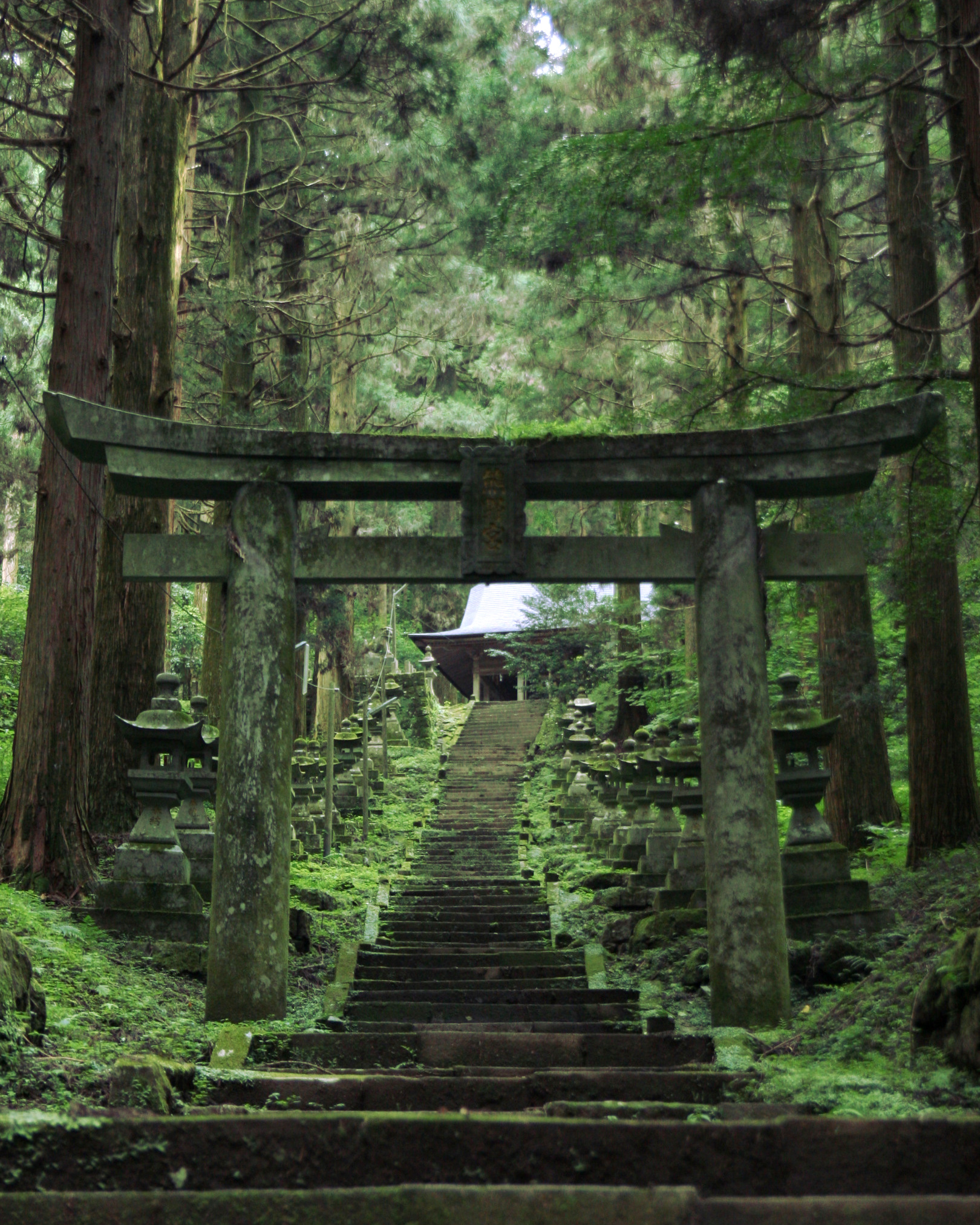 Kamishikimi Kumanoimasu Shrine in Takamori-machi, Kumamoto Prefecture, JP